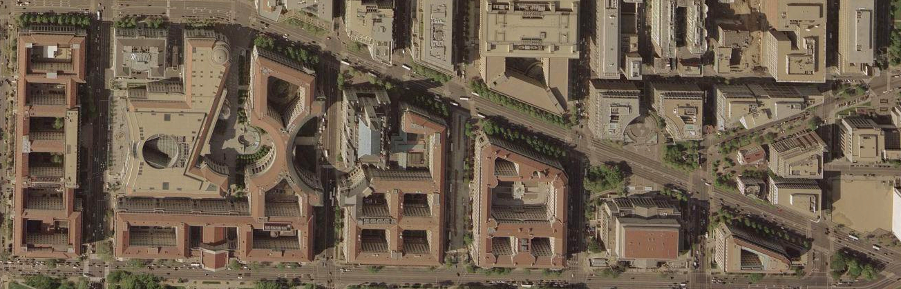 Aerial image of the Federal Triangle.